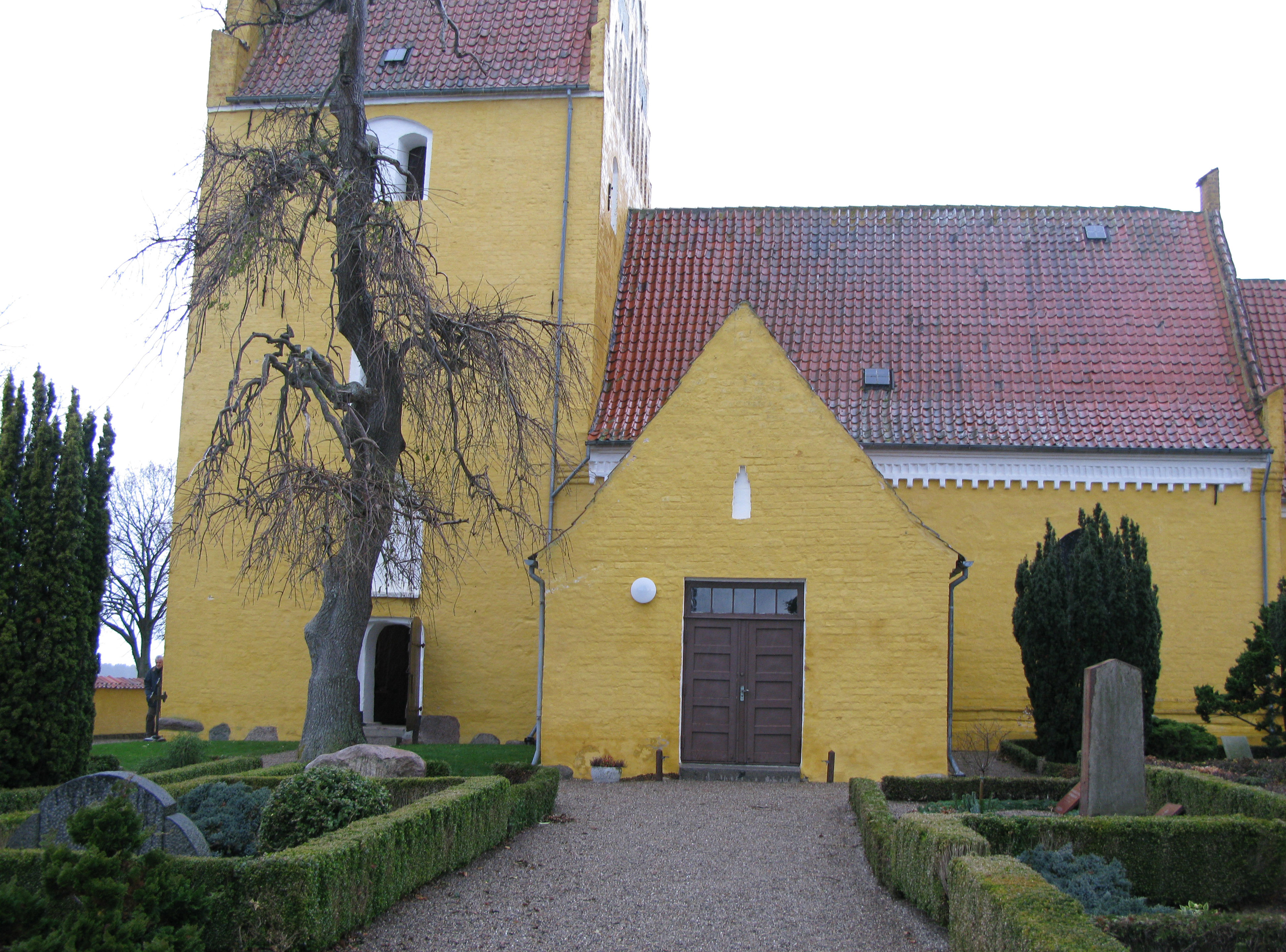 Stadager church from southæ